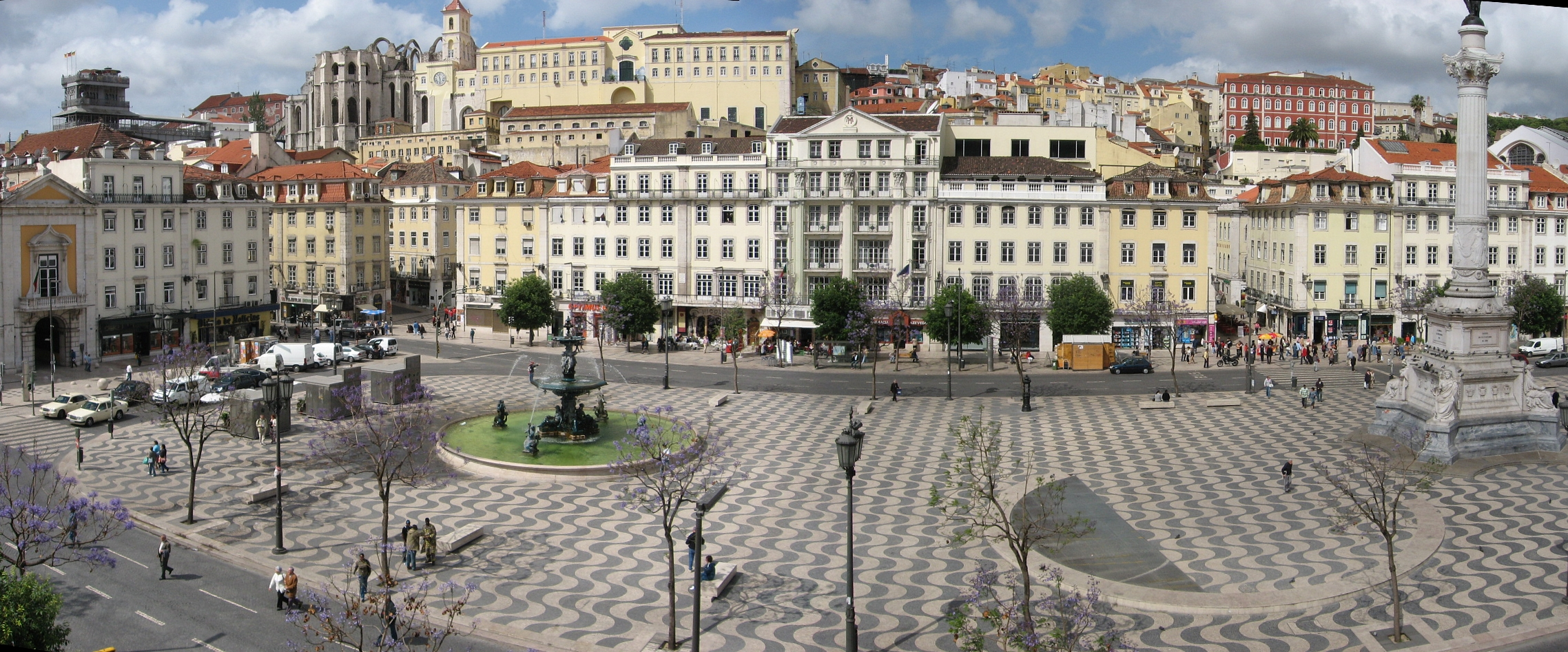 Rossio with bronze fountain, statue of Dom Pedro IV, and the typical Pombaline façades. In the left upper corner the Elevador de Santa Justa, and the graceful ruins of the Convento do Carmo.